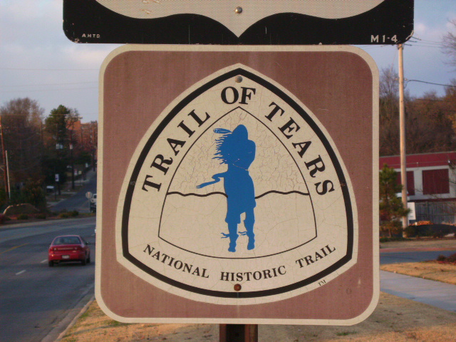 Trail of Tears sign on Hwy 71 through Fayetteville, Arkansas